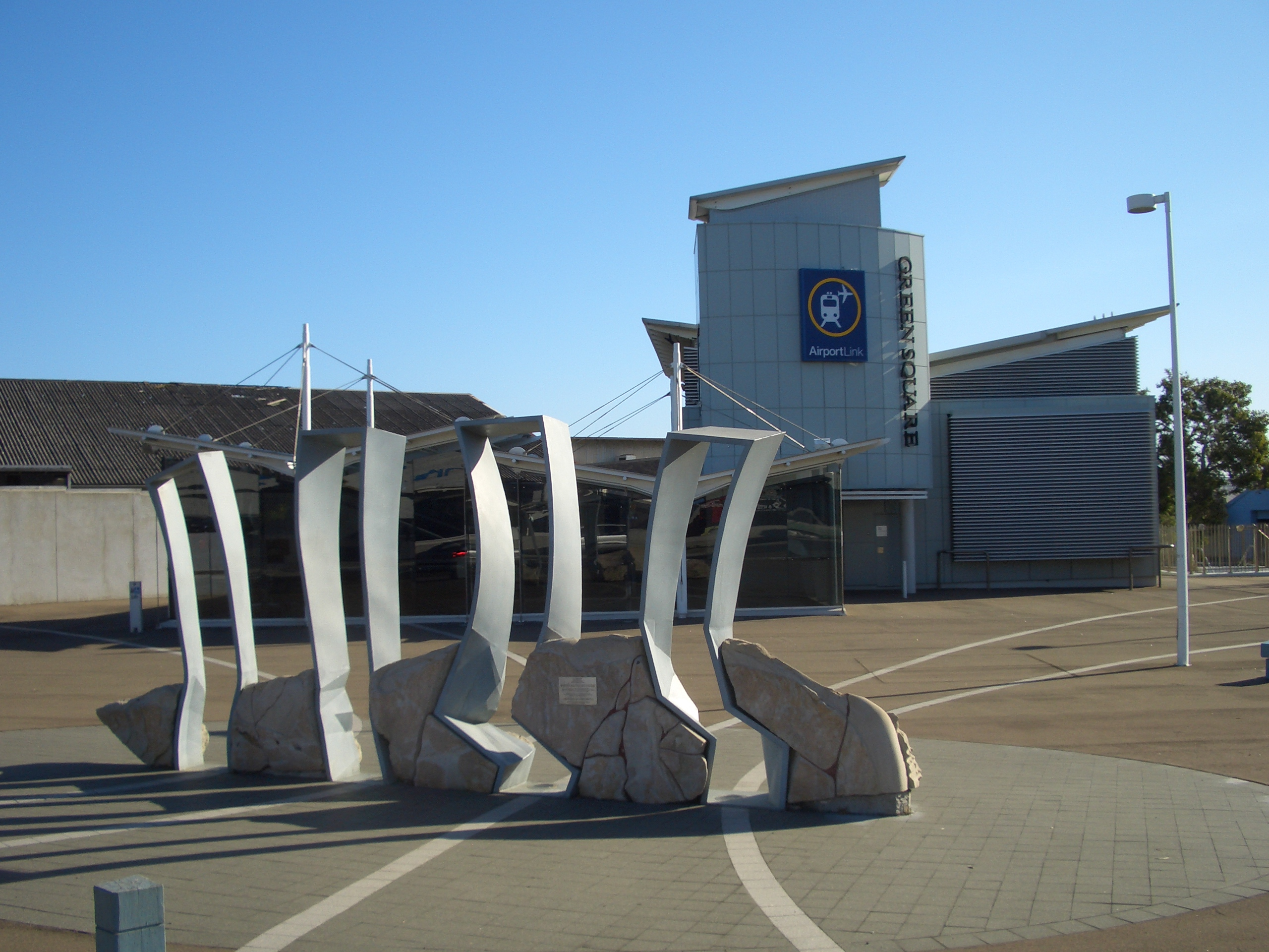 Green Square Railway Station, Sydney